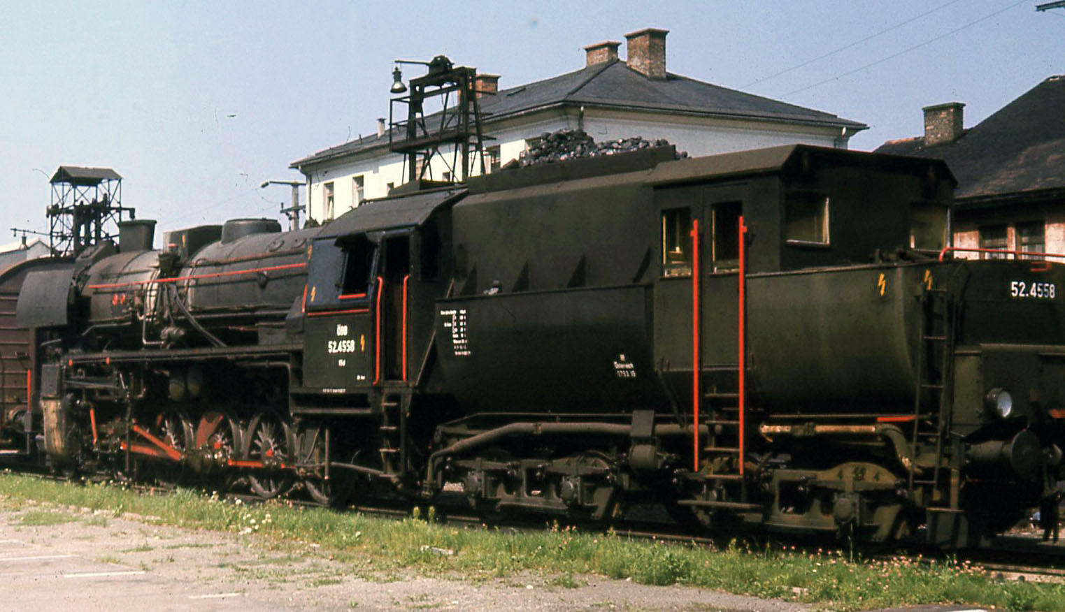 ÖBB 52 class with tender cab and Giesel ejector, Graz shed